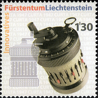 Technical Innovations from Liechtenstein - Curta Calculator